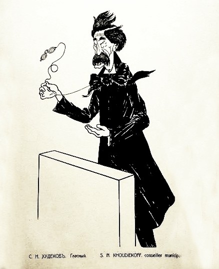 S. N. Khudekov. Caricature of Paul Robert